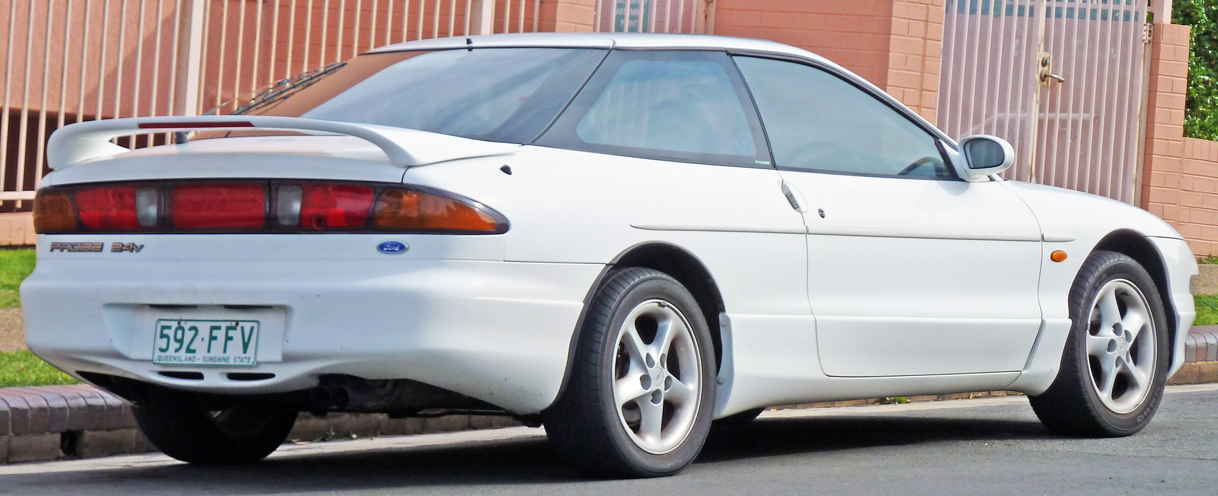 1994 Ford Probe liftback. Photographed in Cronulla, New South Wales, Australia. Vehicle registration enquiry results Jurisdiction Queensland Registration 592FFV Chassis code 1ZVLT22B1R5178480 Year of manufacture 1994